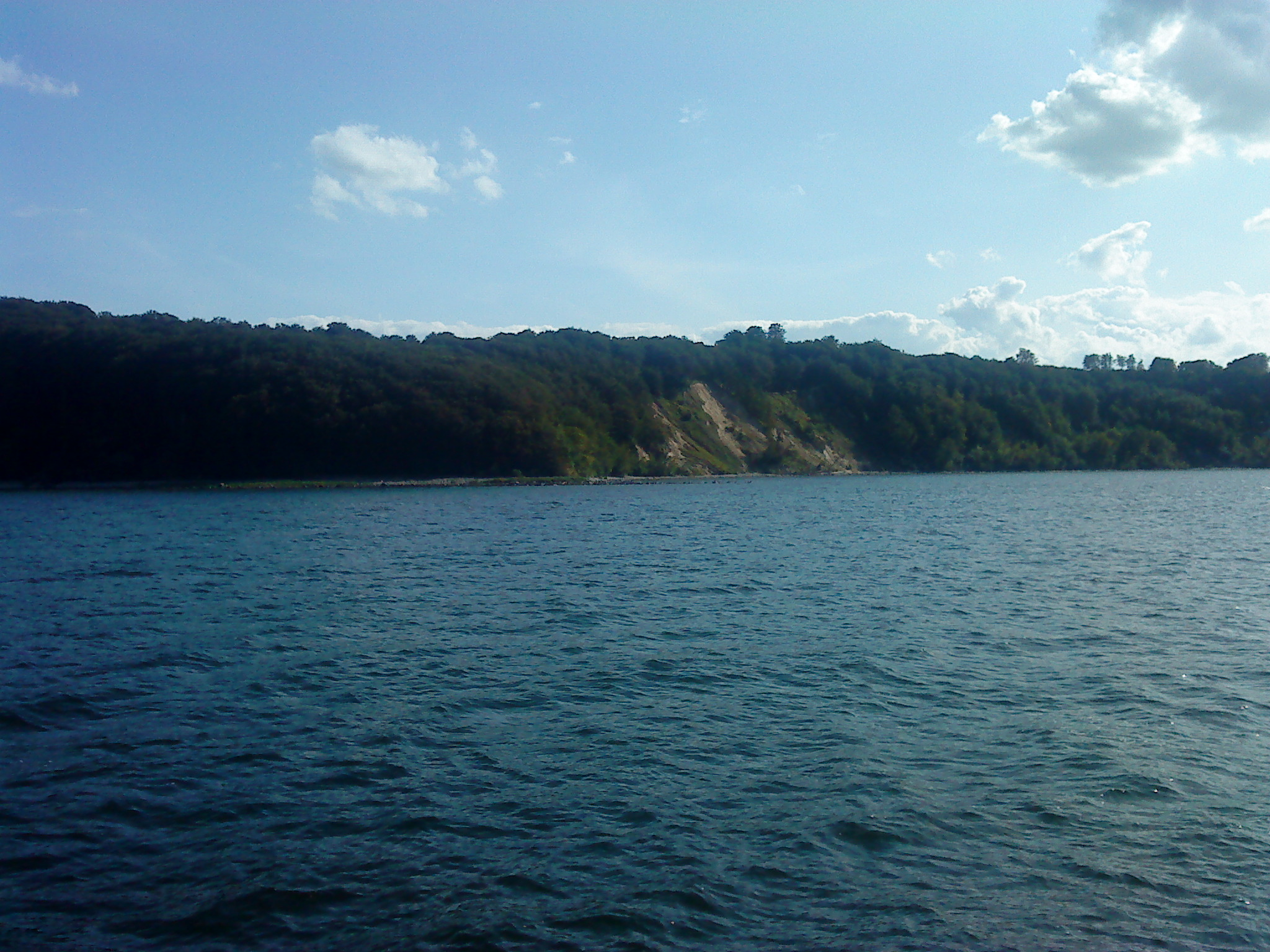 Granitz